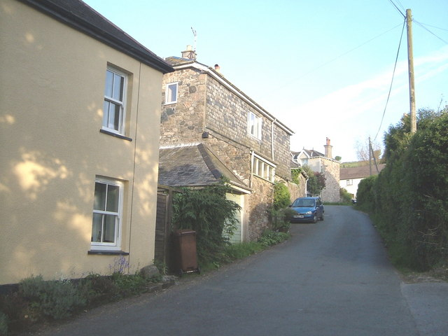 AishThe hamlet of Aish is on a steep lane just outside South Brent.